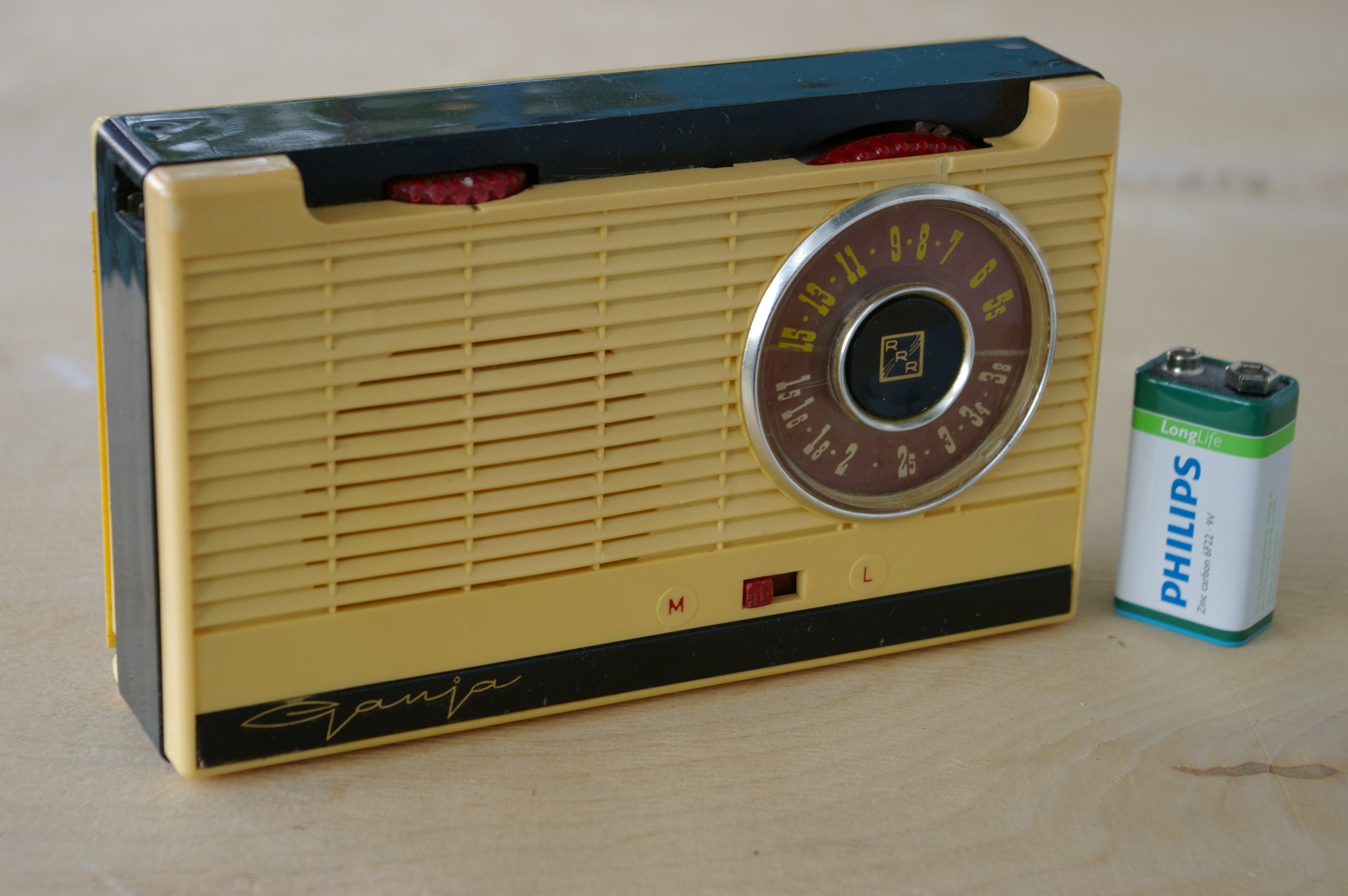 RRR Gauja, first RRR transistor receiver. USSR, Riga, 1961